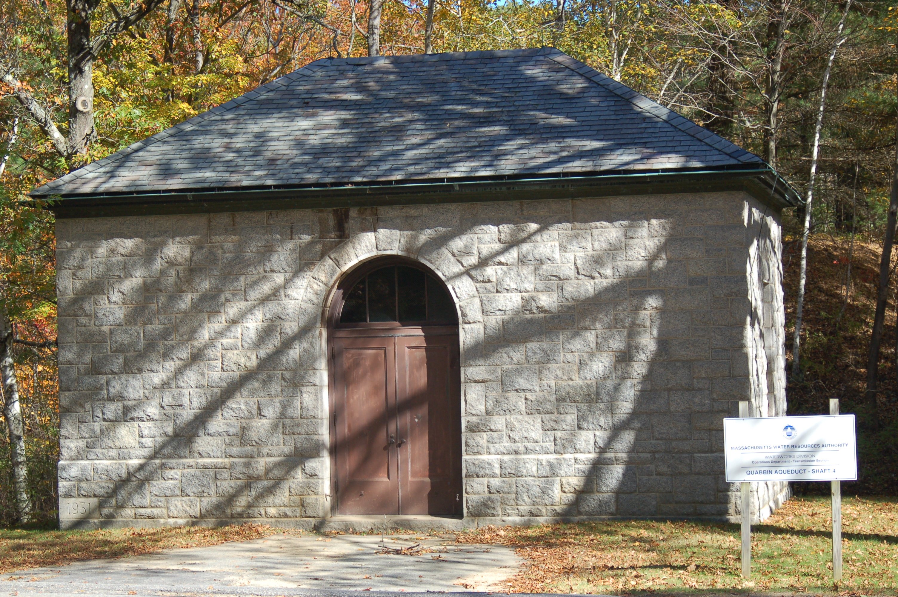 Photo taken by Author, Richard B. Johnson